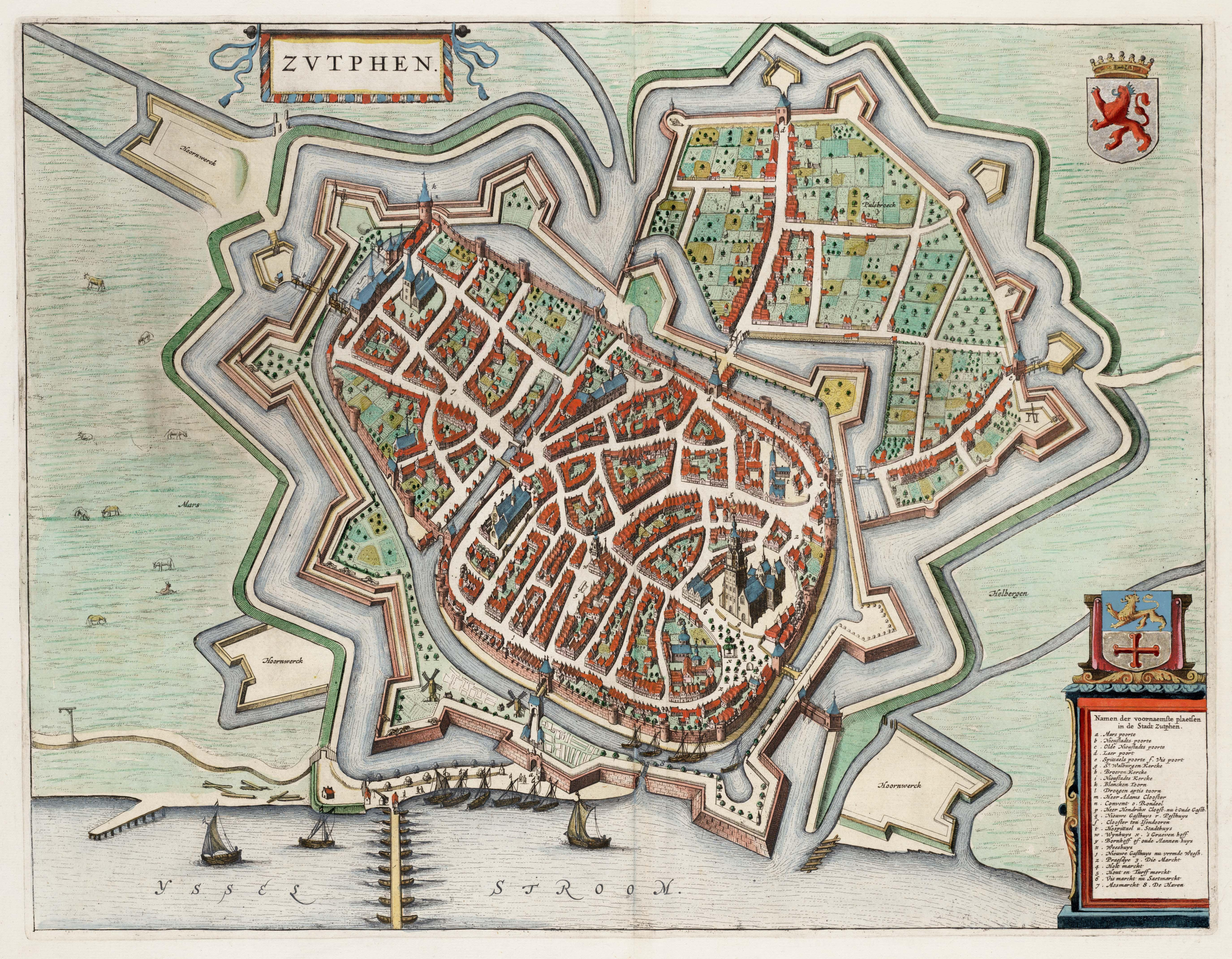 Zutphen